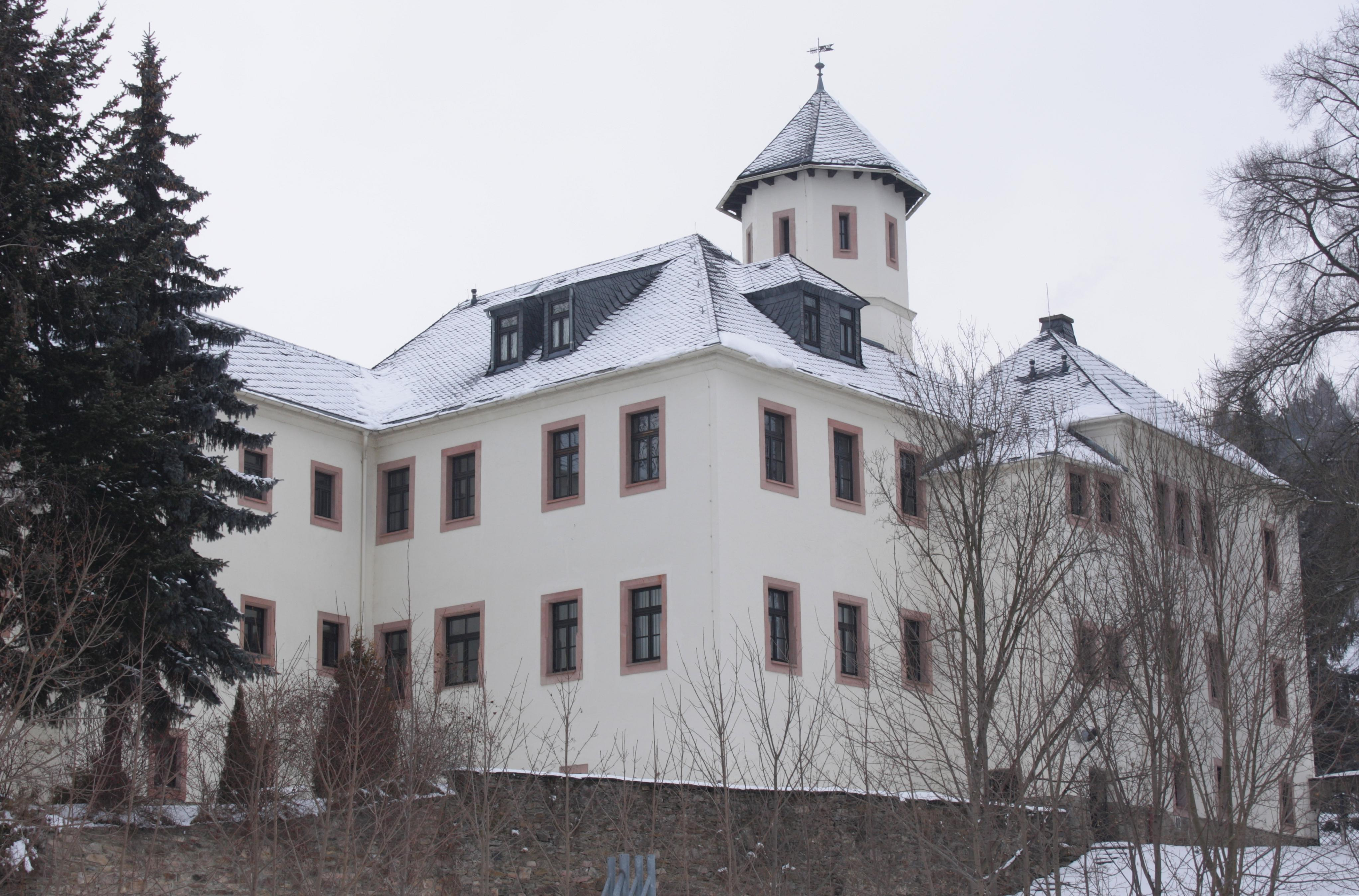 Rittergut Sachsenfeld